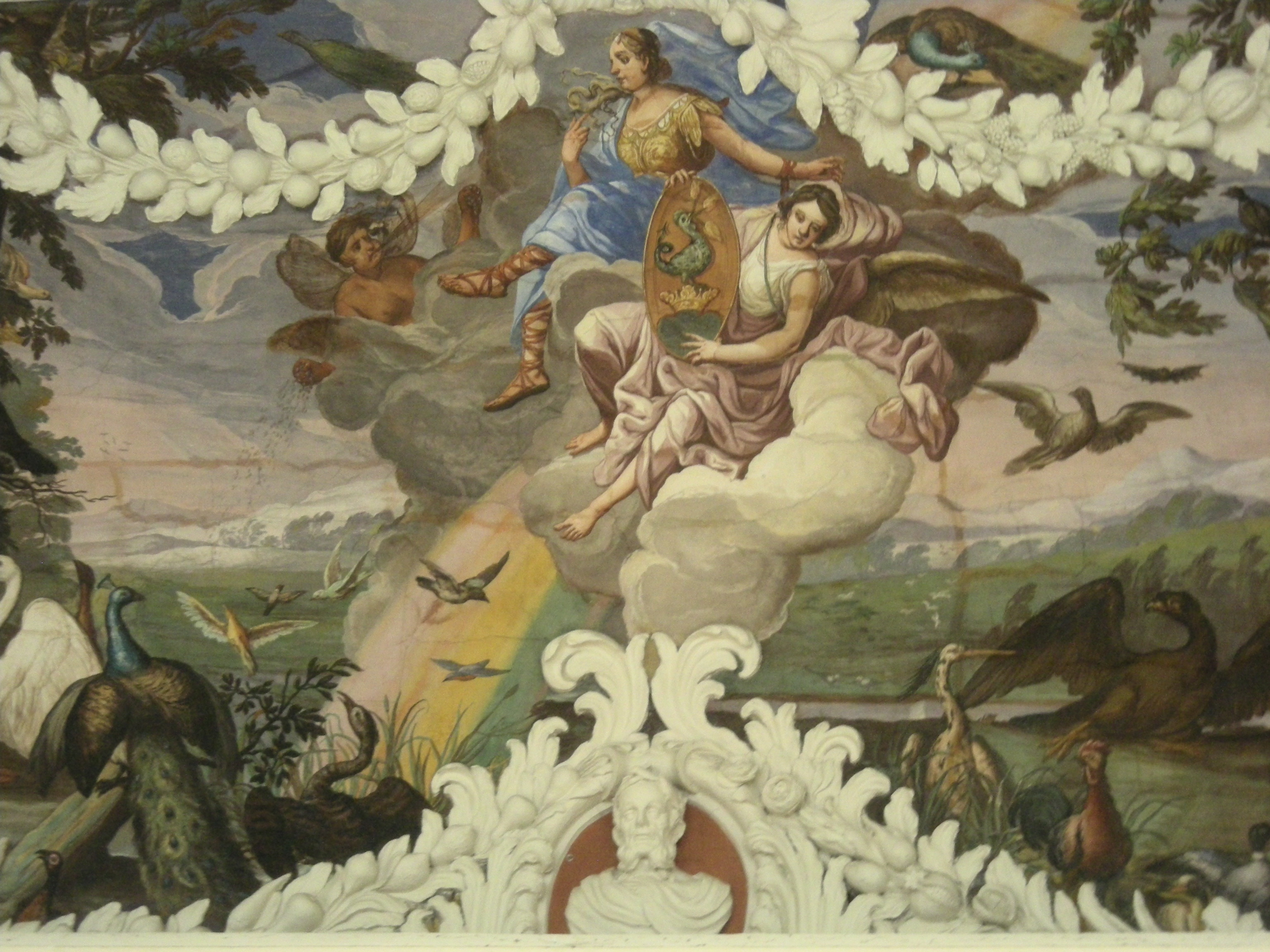 Fresco of Air (classical element) in castle Štatenber, Slovenia